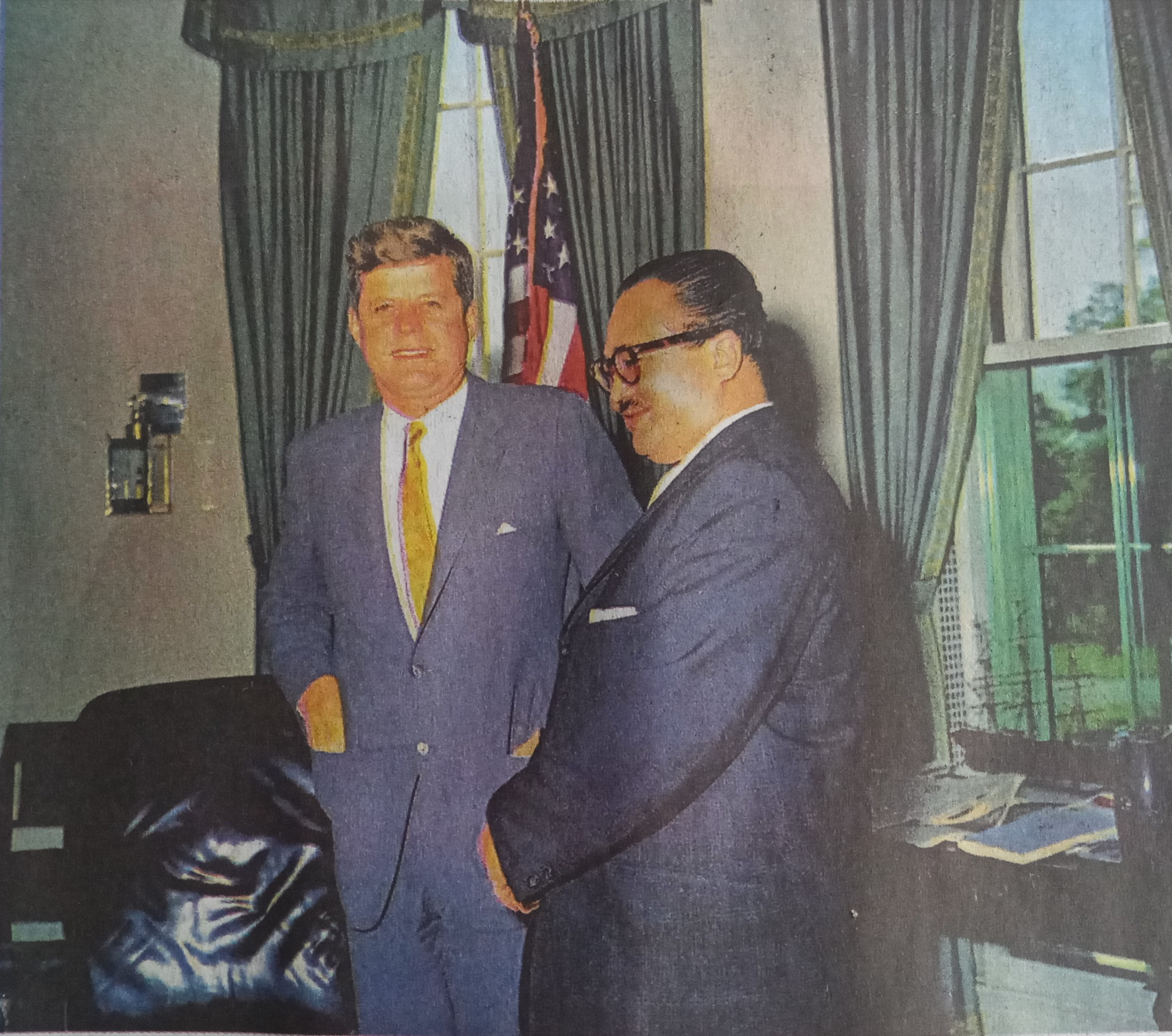 नेपाली: Nepalese ambassador to USA Shah with President JKF